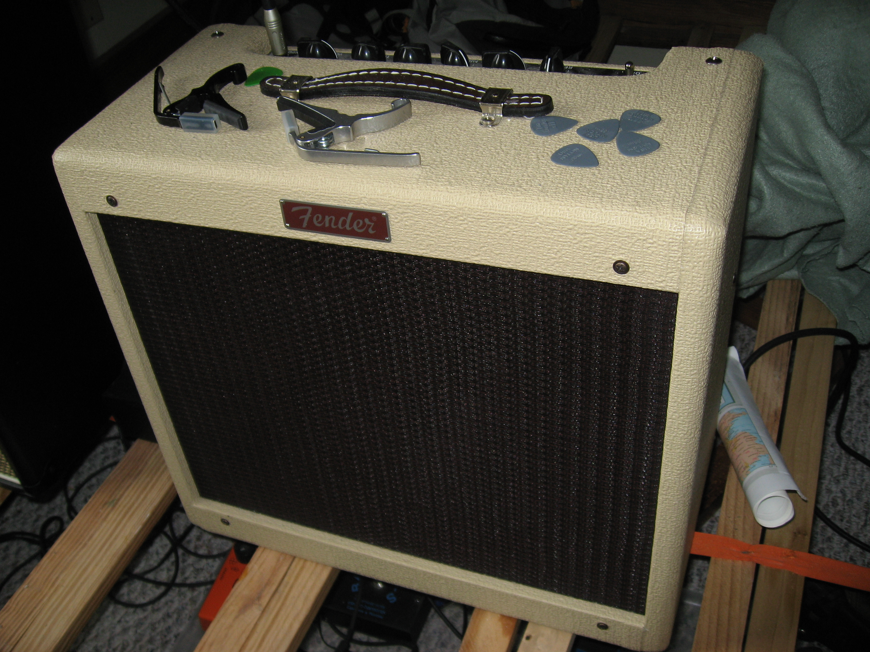 Fender Blues Junior with blonde cosmetics